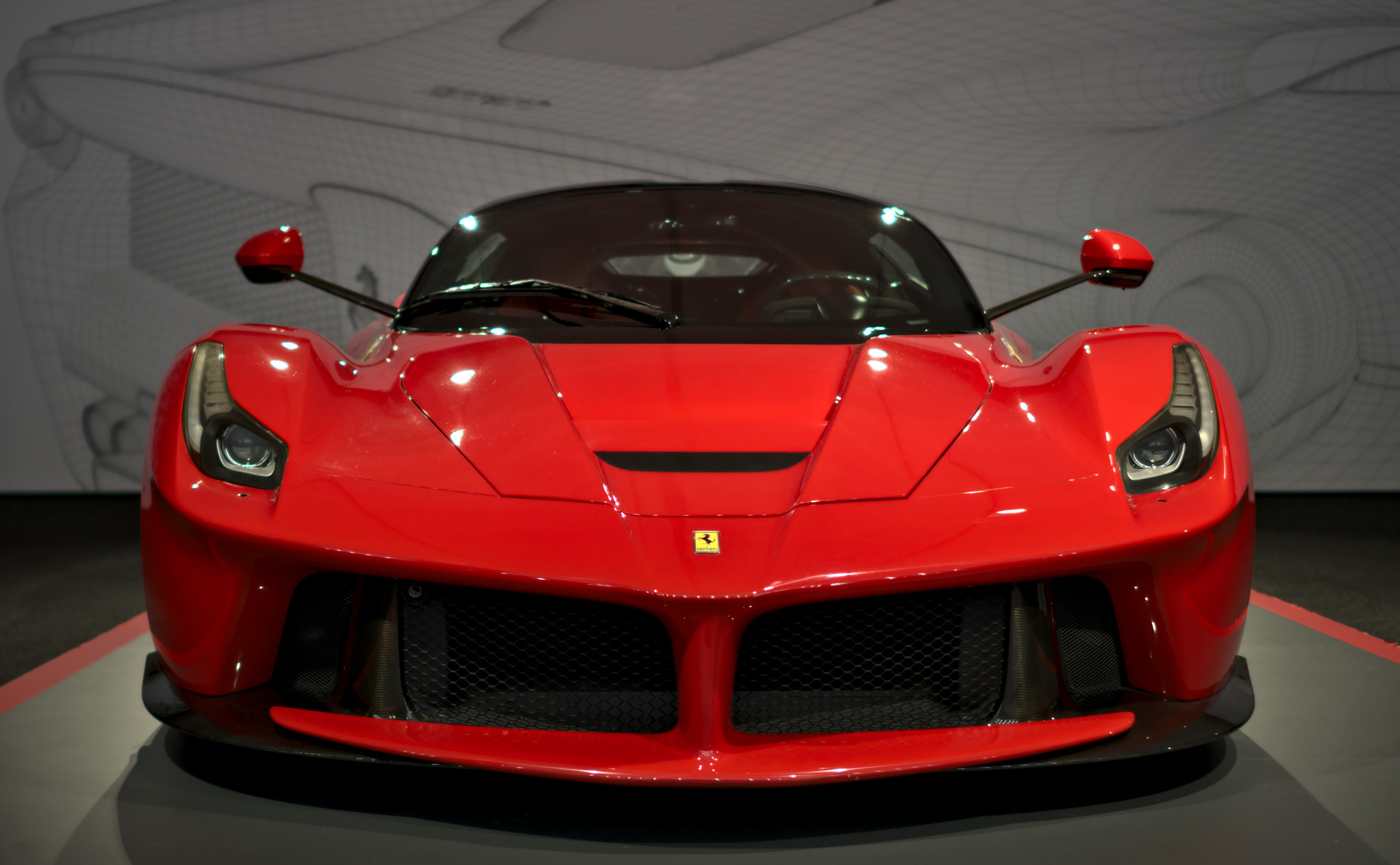 Front of a LaFerrari: a hybrid sports car built by Ferrari. Picture taken at the Ferrari Museum in Maranello.